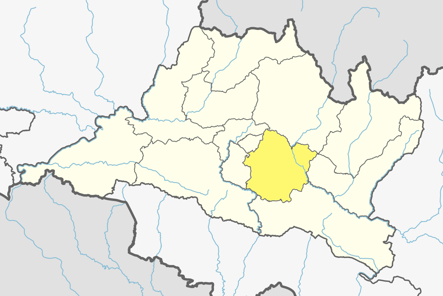 A district of Bagmati Pradesh